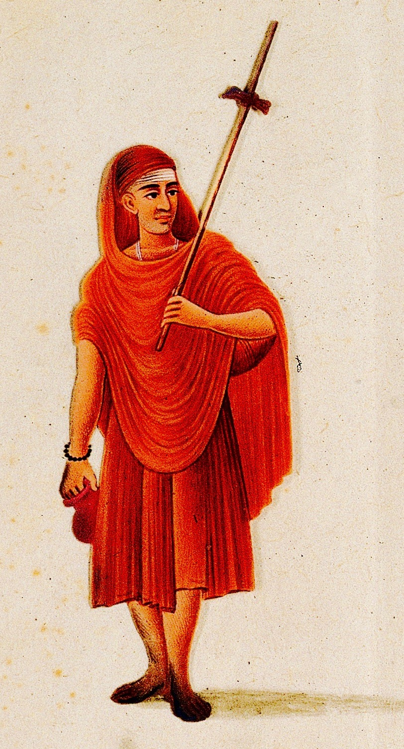 This is a derivative (cropped) work of painting on wikimedia commons. An Indian monk carrying a walking stick (danda) and water pot. It is unclear if this painting reflects a Buddhist or Hindu monk. The head costume/markings suggest a Hindu Sadhu / Sannyasi. Iconographic Collections Keywords: Ethnology; Culture; Ritual; India; Religion; Costume